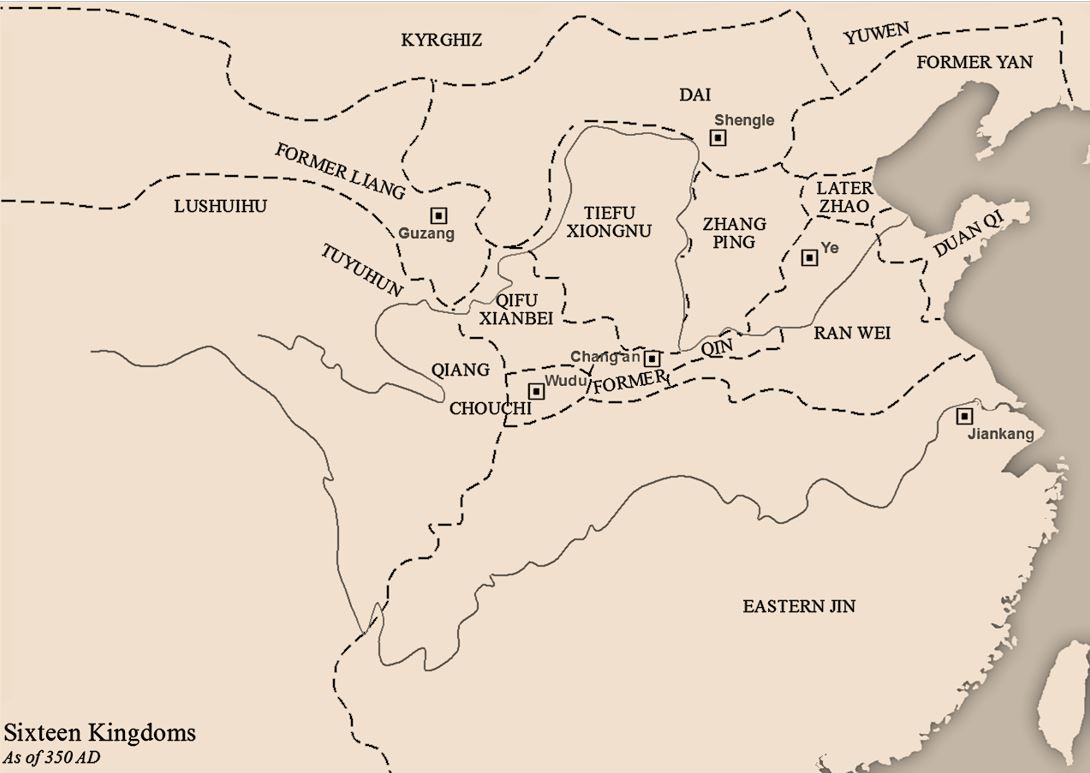 Map of Sixteen Kingdoms as of 350 AD